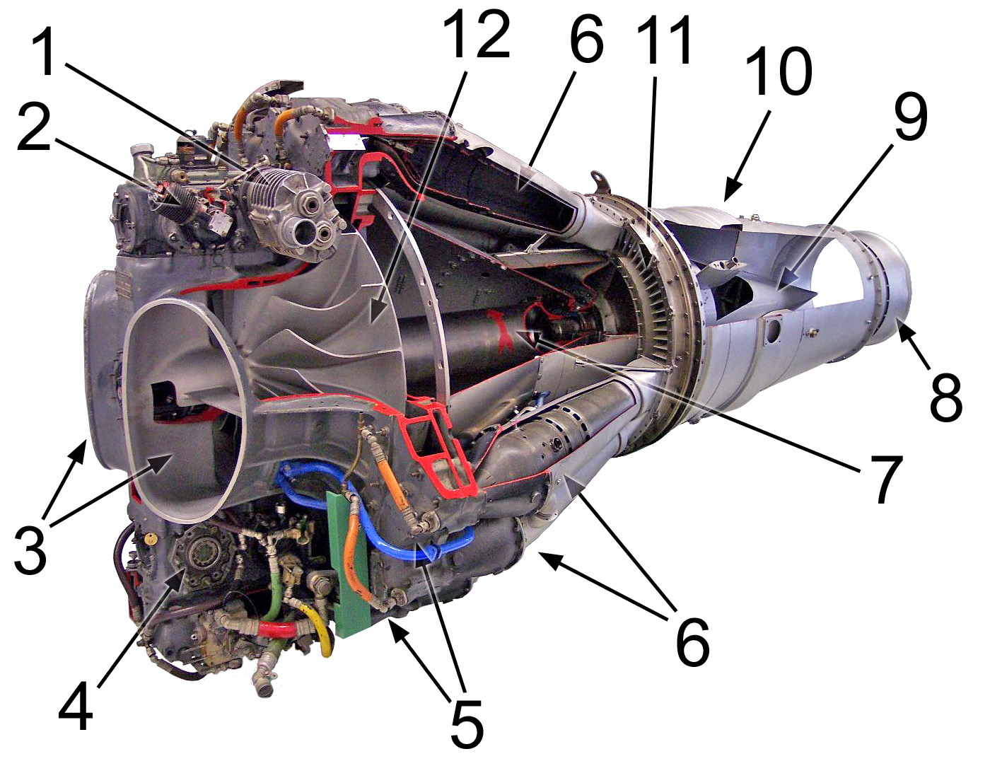 A sectioned de Havilland Goblin II describing the internal components. Legend: Pressure-cabin air compressor Pneumatic system air compressor (wheel brakes, etc...) Air intakes (supplied from intakes in aircraft wing root) Starter motor (not fitted) mounting Fuel lines to injectors inside combustion chamber 16 combustion chambers (inside flame cans) arranged around engine Main shaft connecting impeller and turbine Tail cone (turbine fairing) Jet pipe Muff around jet pipe supplying hot air for cabin heating Turbine stator blades Impeller (centrifugal compressor) attached to turbine via main shaft